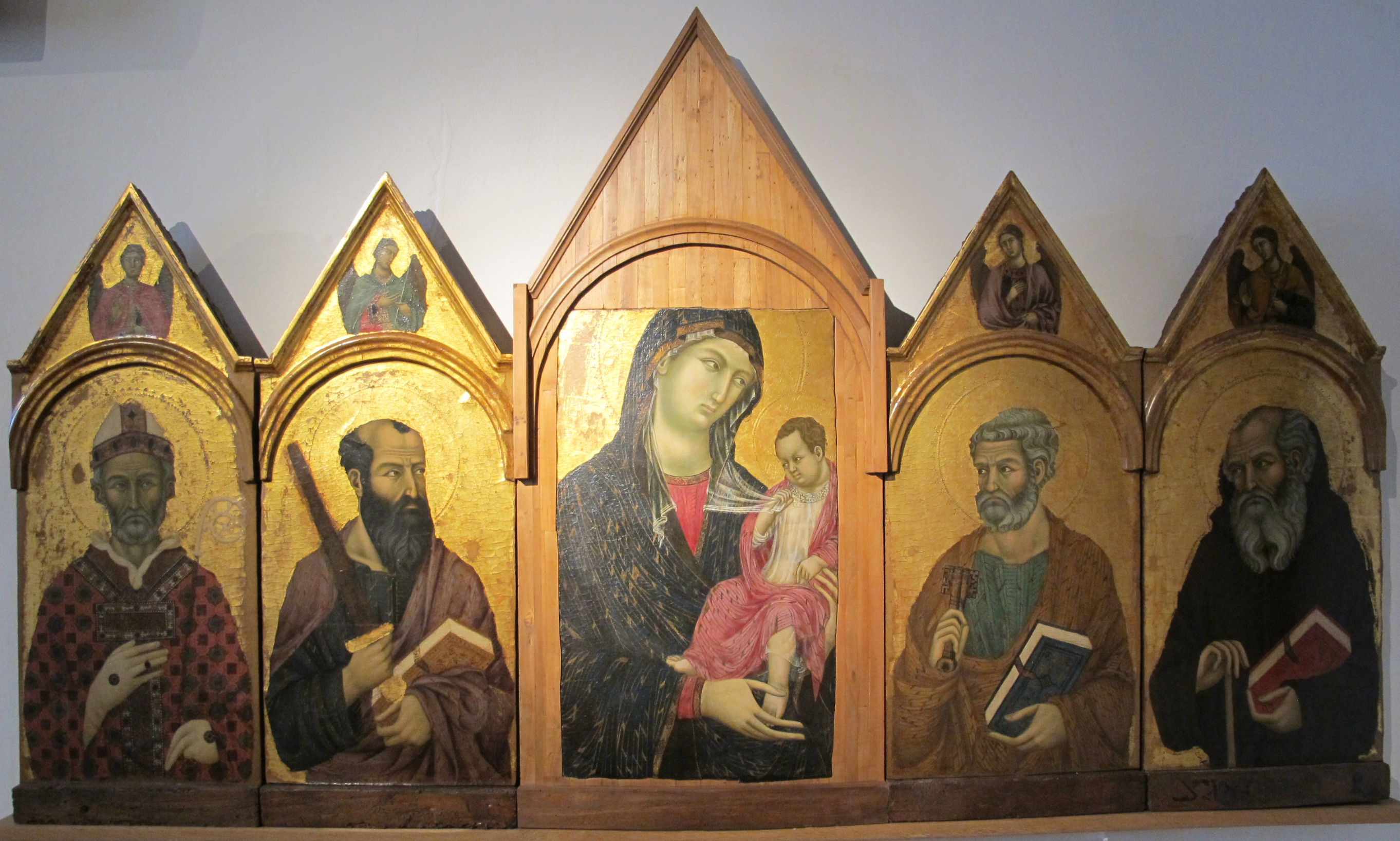 Painting in the National Pinacotheque, Siena